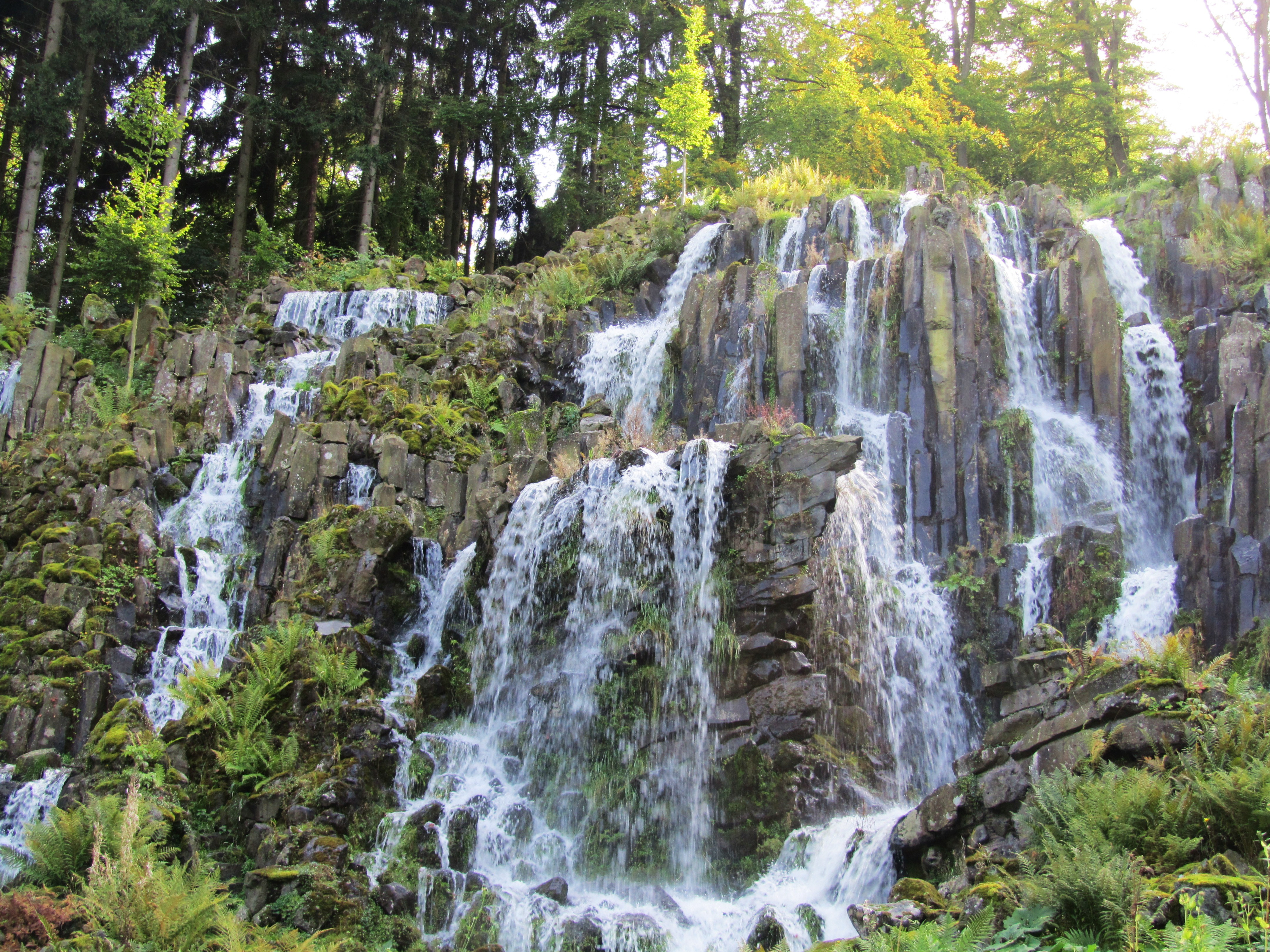 Germany, Kassel: Bergpark Wilhelmshöhe attraction "Steinhöfer Wasserfall"